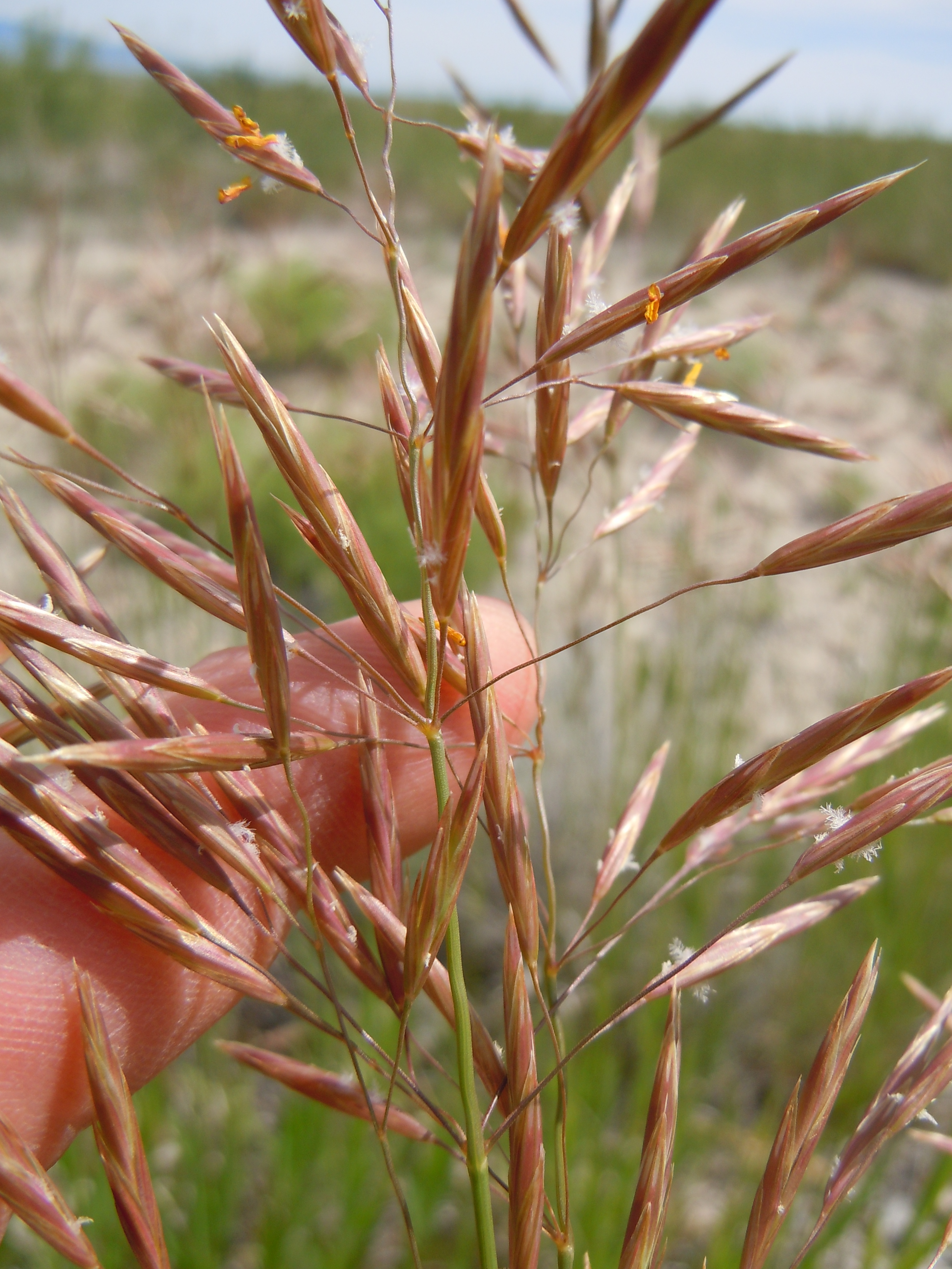 Smooth brome is more likely to be found immediately adjacent to the road that just away from it, indicating a need for more moisture than is generally available in this region.